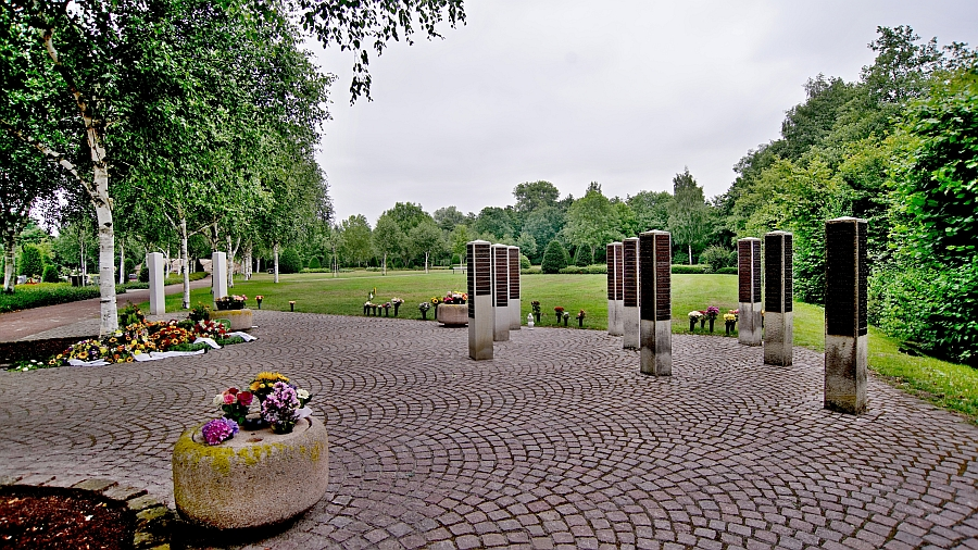 Moordeich Cemetery in Stuhr near Bremen (Lower Saxony), Germany, collective grave